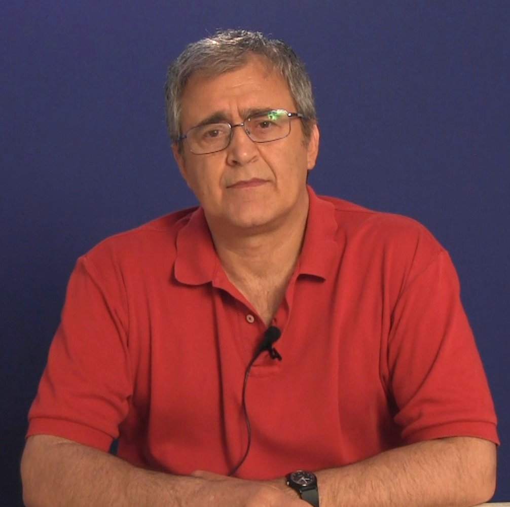 Massimo Mazzucco, filmmaker, photographer and administrator of the site